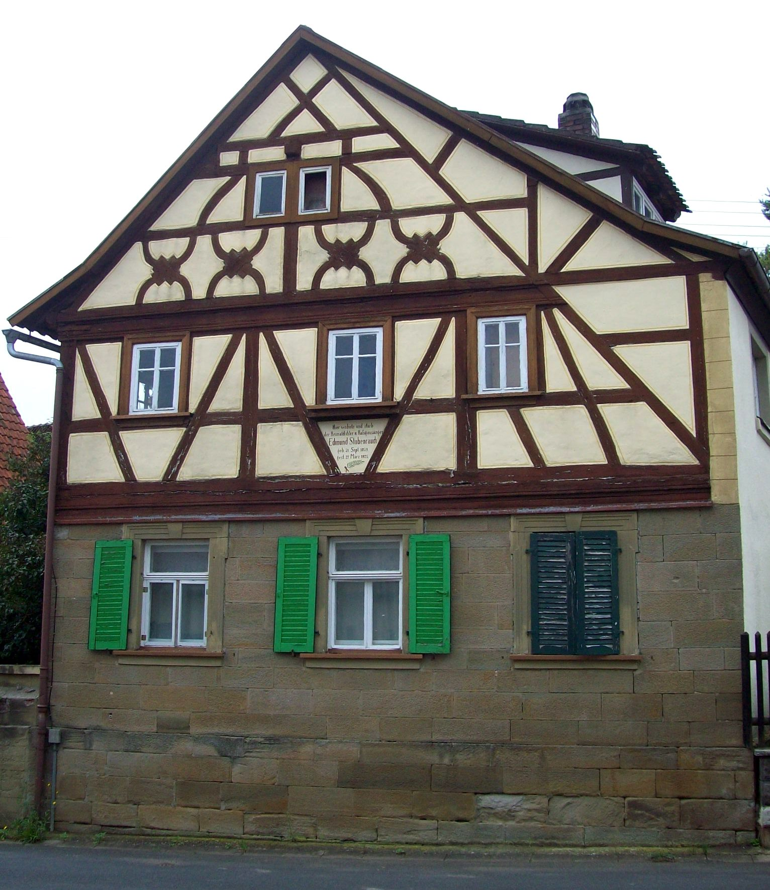 Wohnhaus des Hellinger Bauerndichter und Haßgausängers Edmund Stubenrauch, Hirtengasse 7, Hellingen (Königsberg in Bayern)